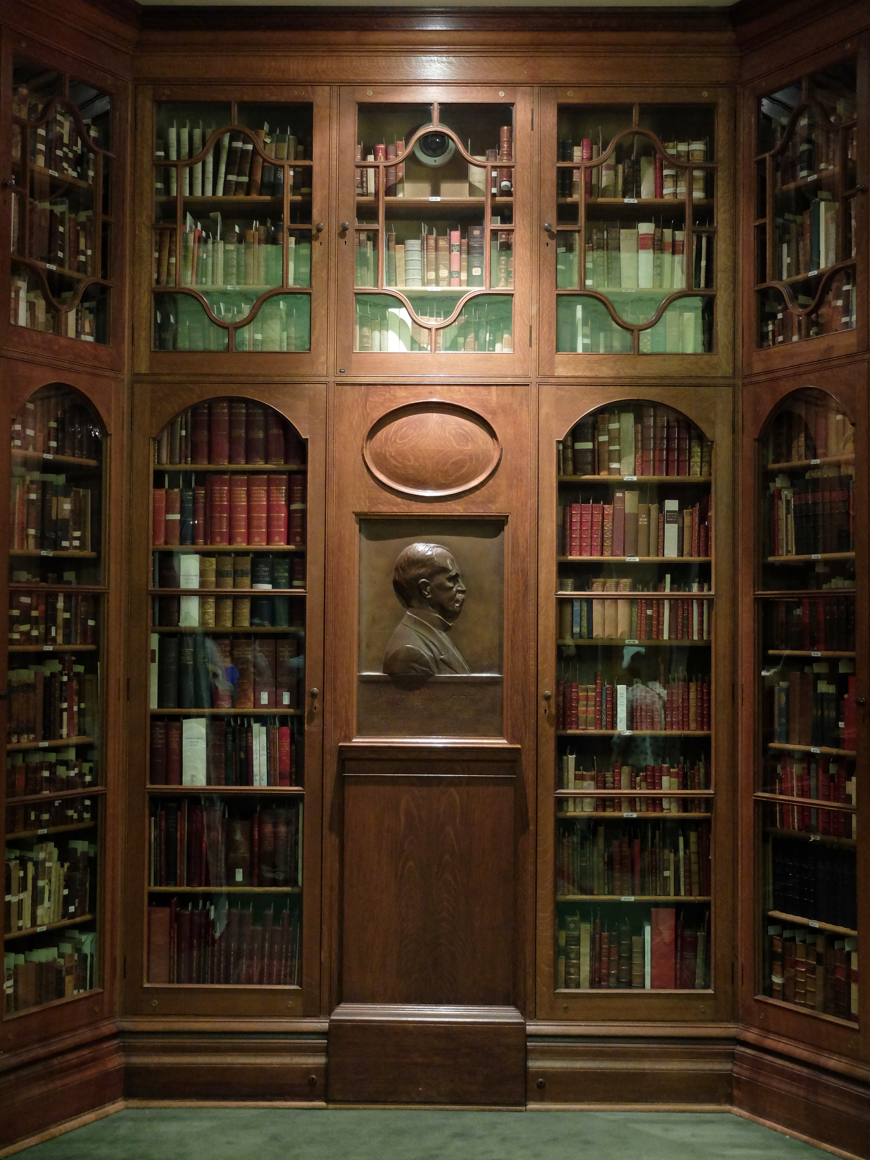 Osler Library of the History of Medicine, Bibliotheca Osleriana. Visit by Wikimedians during the North American Conference 2017.